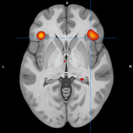 Replication of Chen et al meta analysis of fMRI studies in bipolar disorder; ALE in GingerALE, using FDR pID and Eickhoff method; Driving Foci are from from studies including Mazzolla-Pomietto et al 2009, and Foland et al 2008